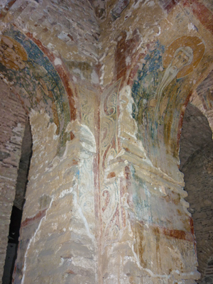 medieval church in Pataleniza Bulgaria